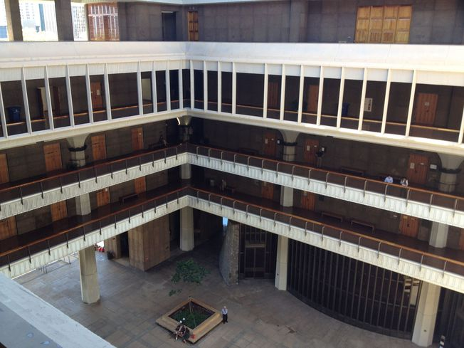 Interior of Hawaii State Capitol from Executive Floor. The Lt. Governors office is in the background